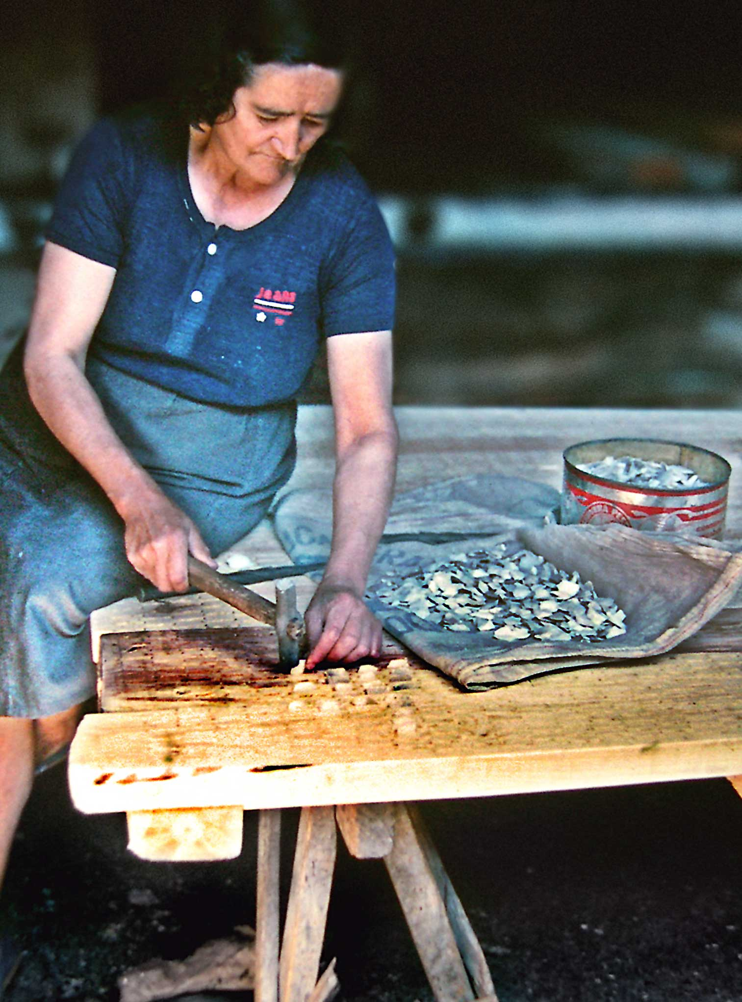 A woman from Cantalejo (Segovia, Spain), inlaying lithic flakes of flint in the ground facing of a threshing-board